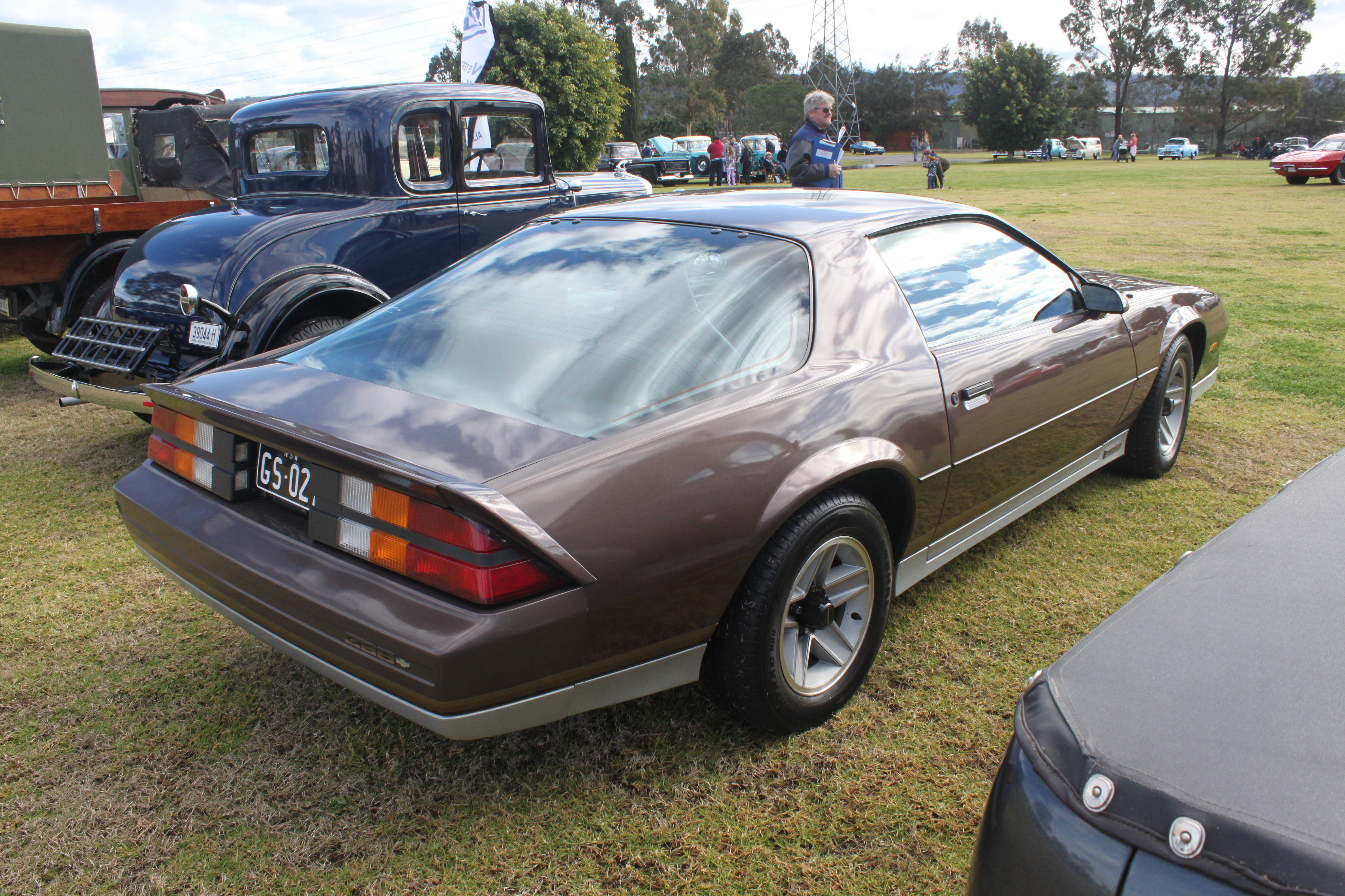 GM Display Day, Penrith Panthers, NSW July 2015